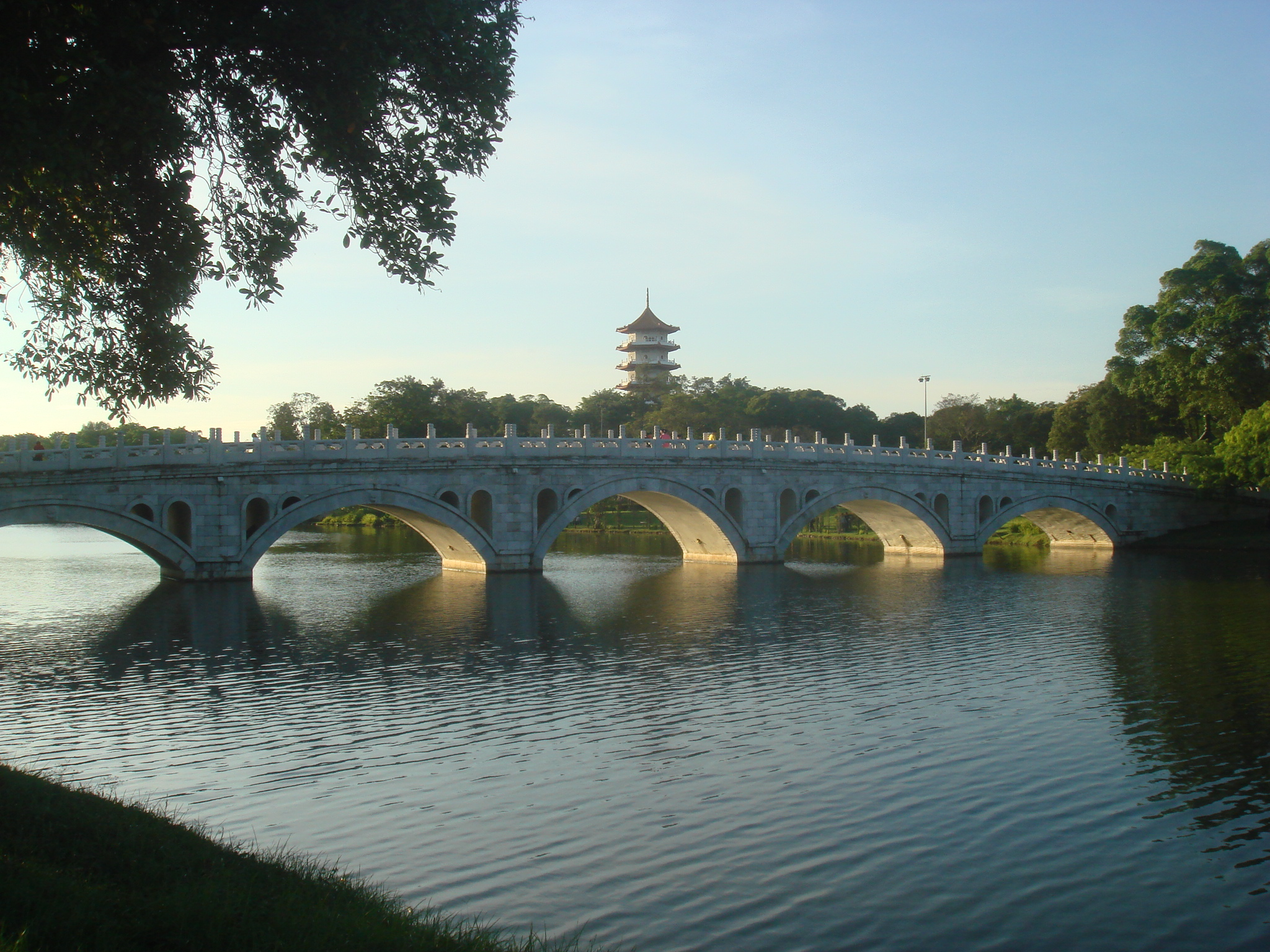 A view of the pagoda in the Chinese Garden in Singapore photographed from the Japanese Garden, which is connected to the Chinese Garden by the bridge.